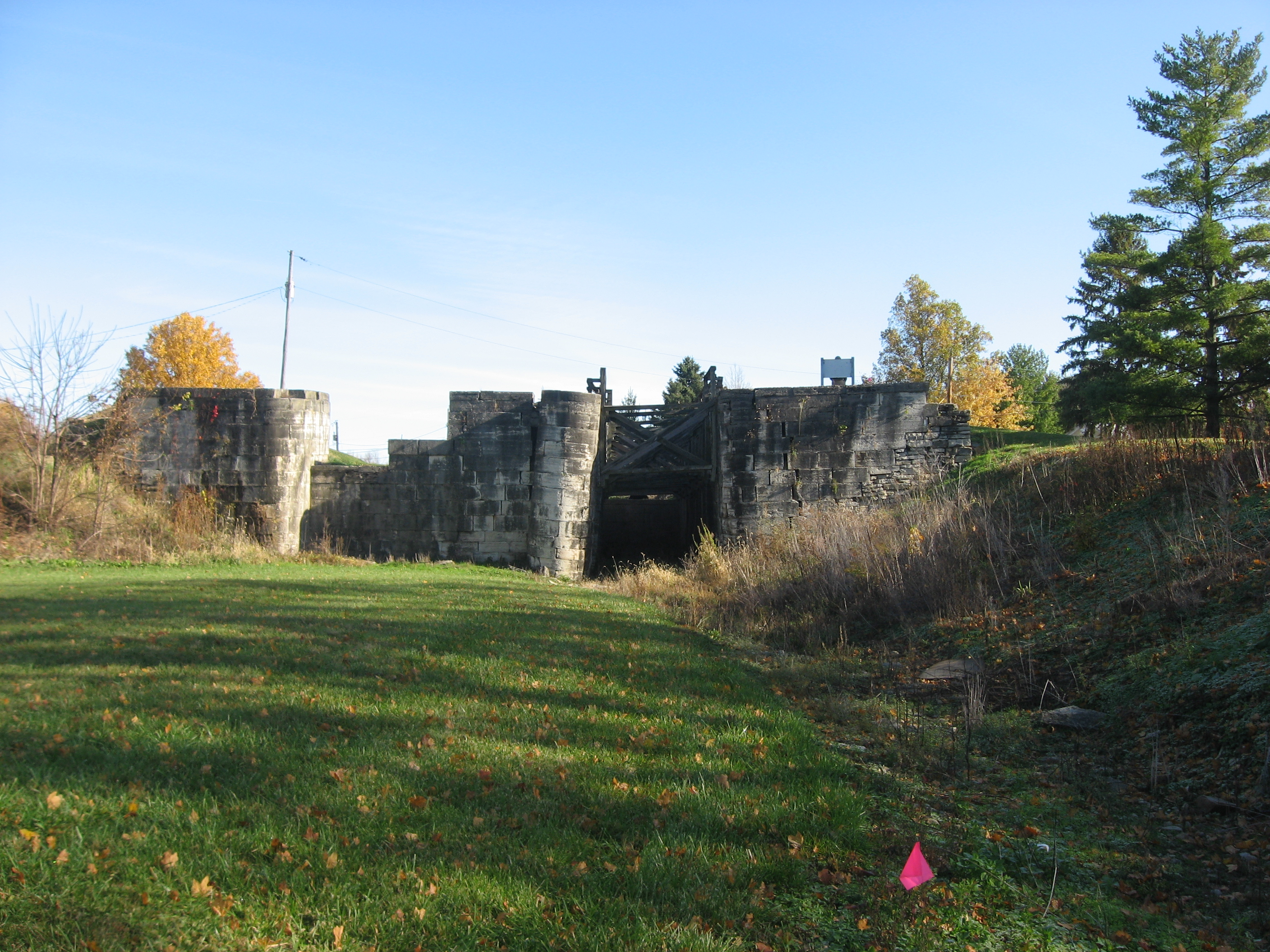 Looking up toward the bottom of the first of the Lockington Locks, located in the southwestern part of the village of Lockington, Ohio, United States. Built in 1833 as a part of the Miami and Erie Canal, the locks are listed on the National Register of Historic Places.